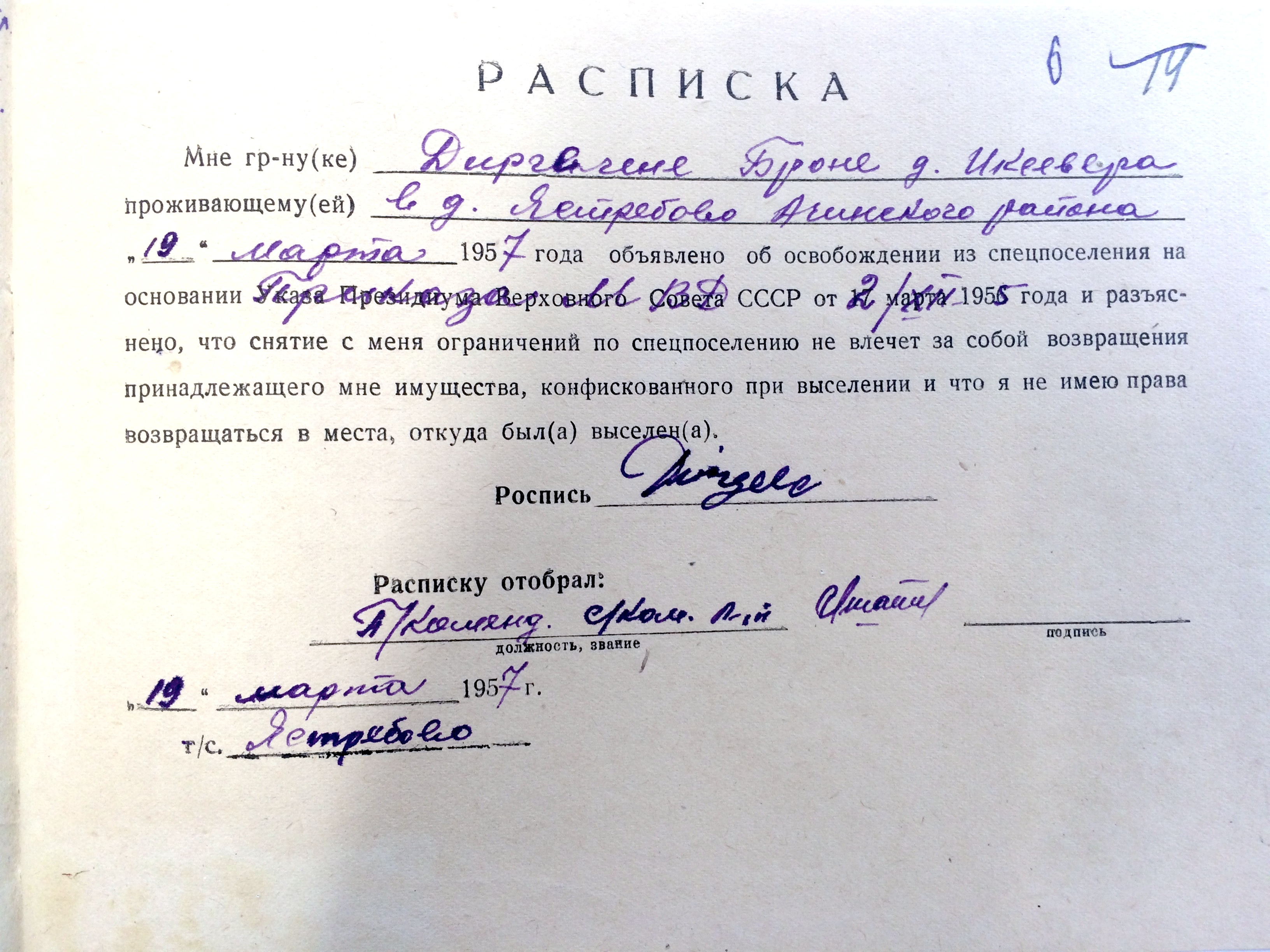 Voucher stating that the person was informed about her release from the forced settlement in Siberia, Soviet Union, 1957.